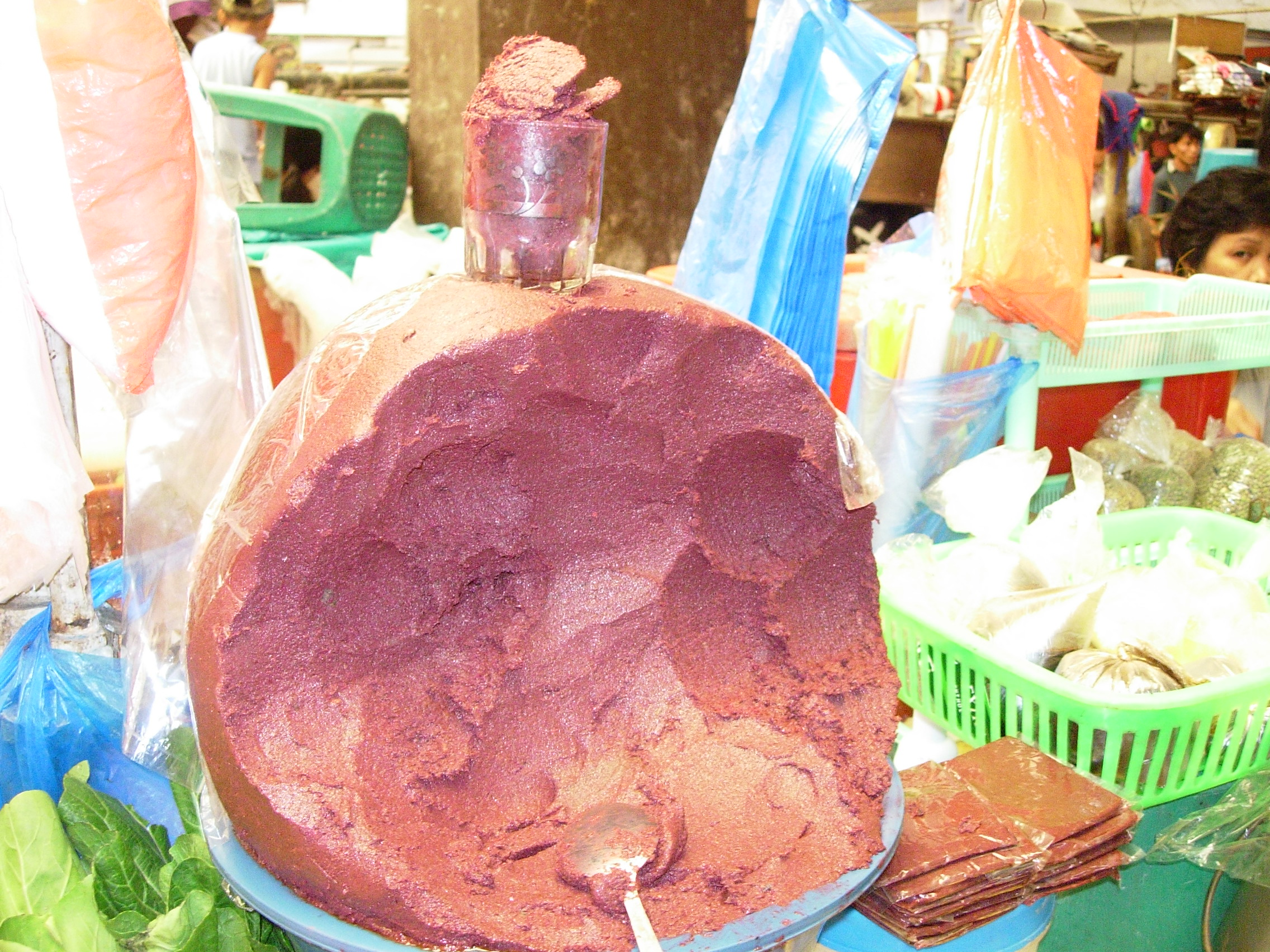 Mound of Shrimp Paste being sold at the Dumaguete City wet market